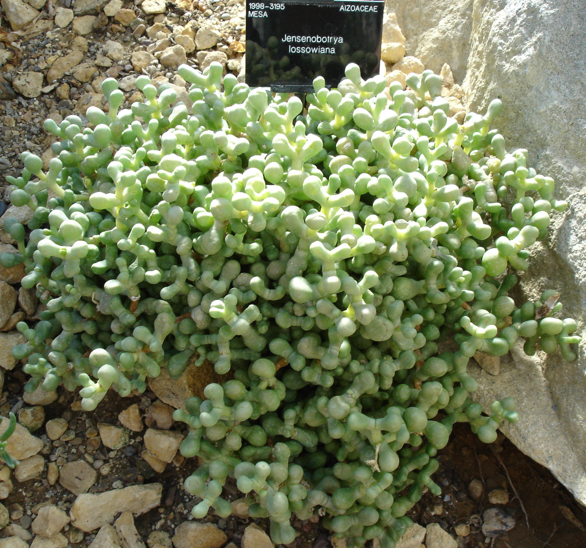 Royal Botanic Gardens, Kew, August 2005